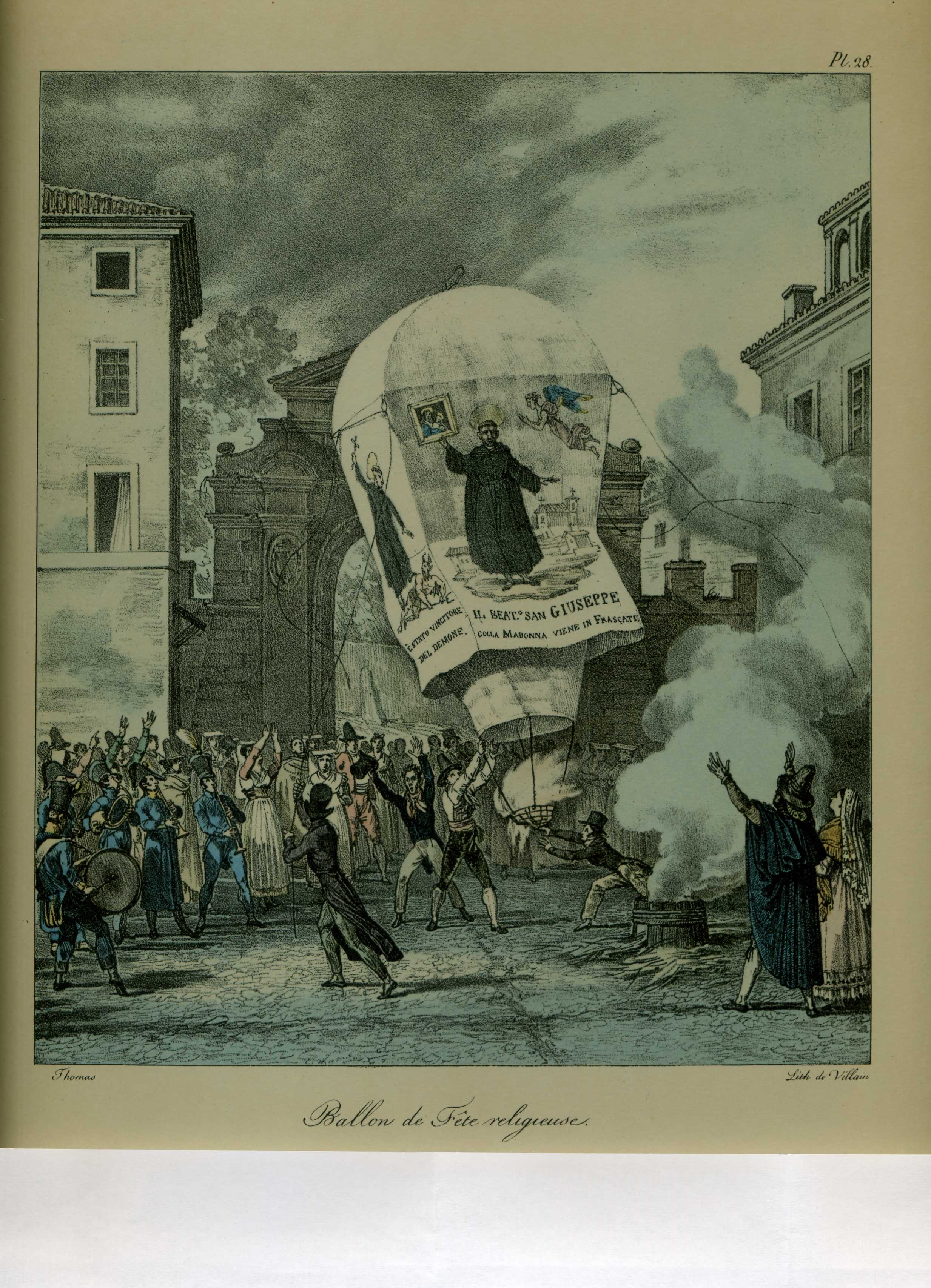 This is an old print (more 100 years) about Frascati